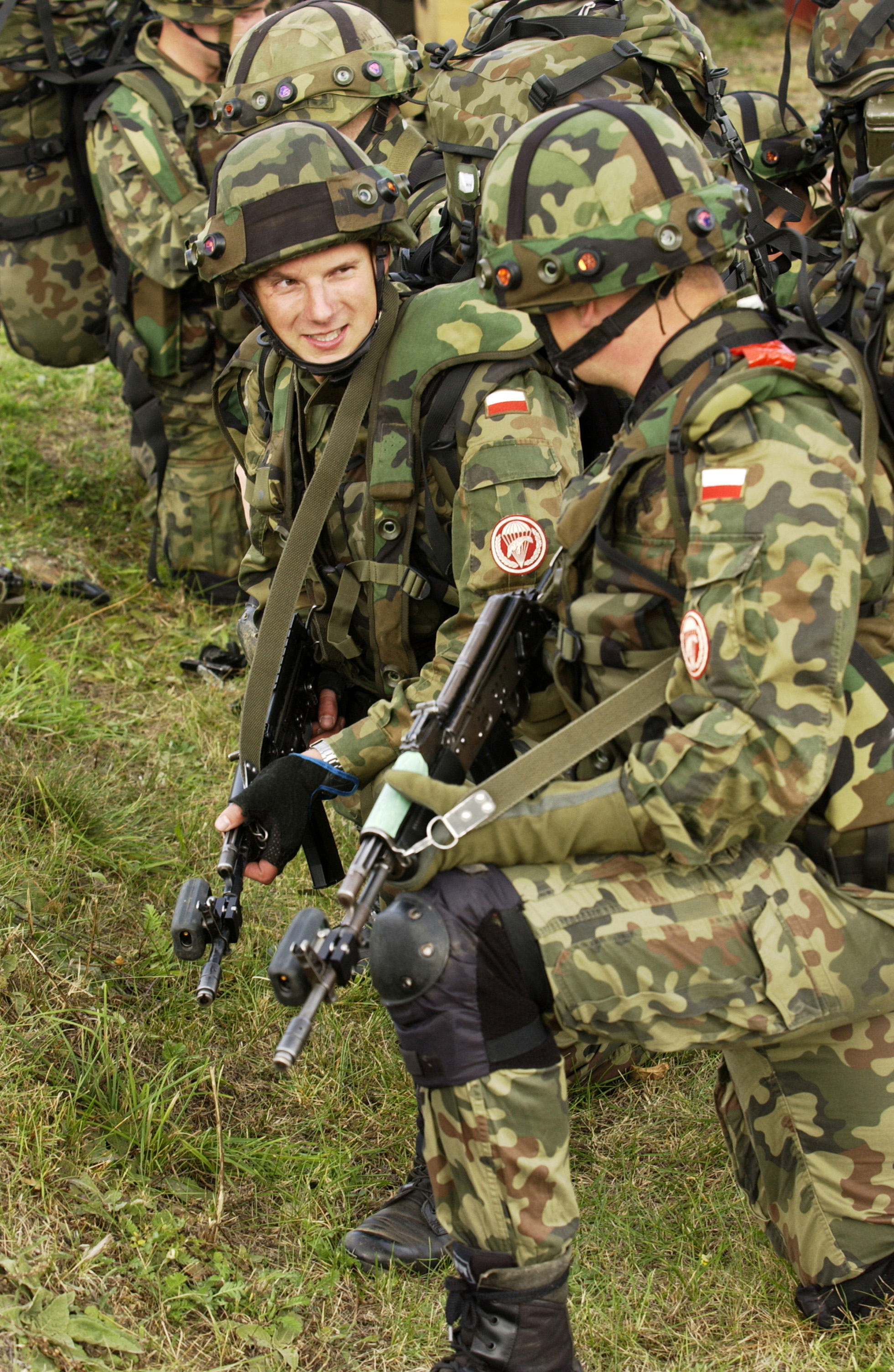 Polish troops from the 6th Polish Airborne Brigade get ready to move out after the airborne drop Monday, outside of Sulecin, Poland. The jump was part of Immediate Response ’04.